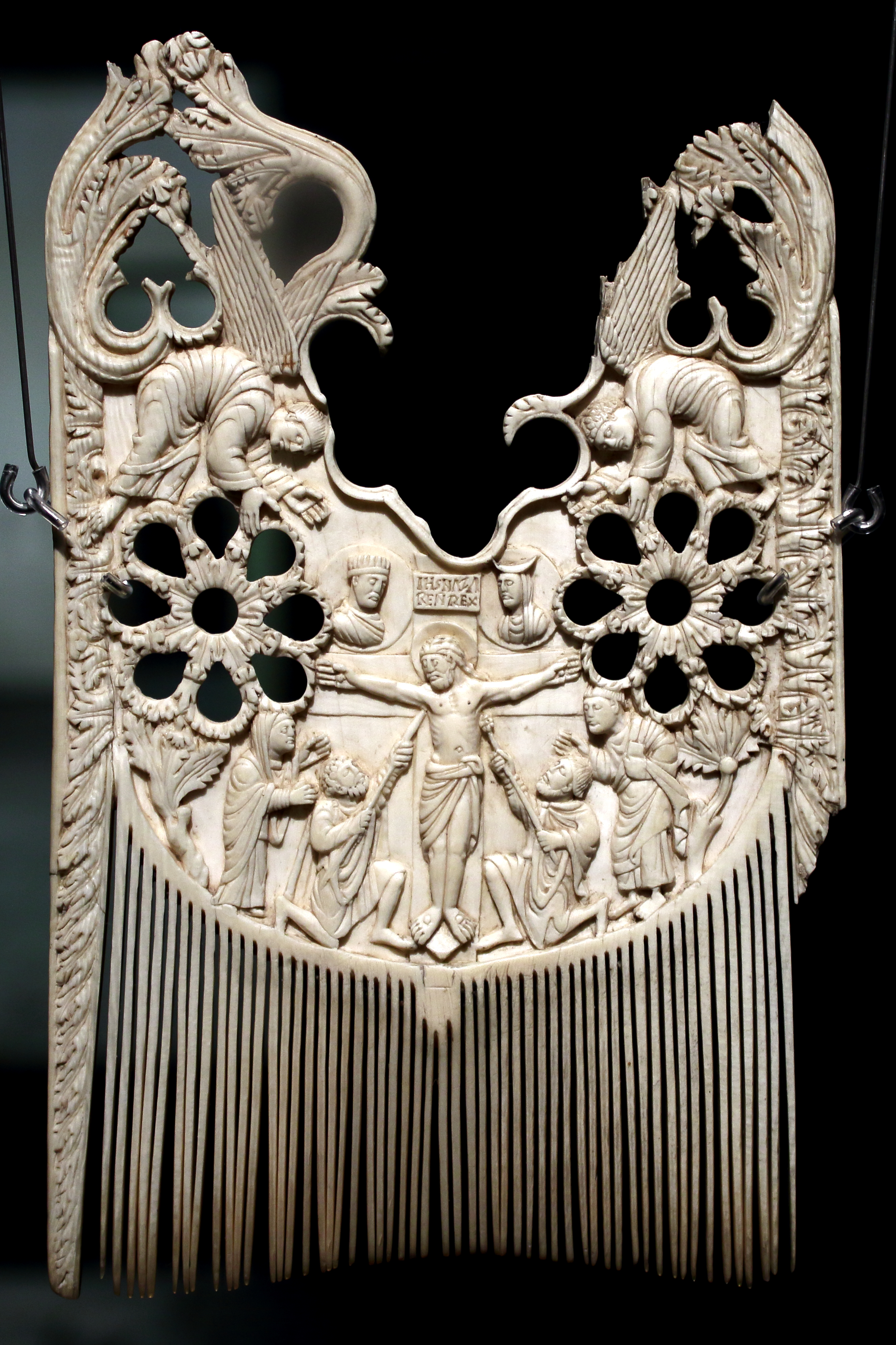 Comb of St. Heribert, a liturgical comb from the 9th century.